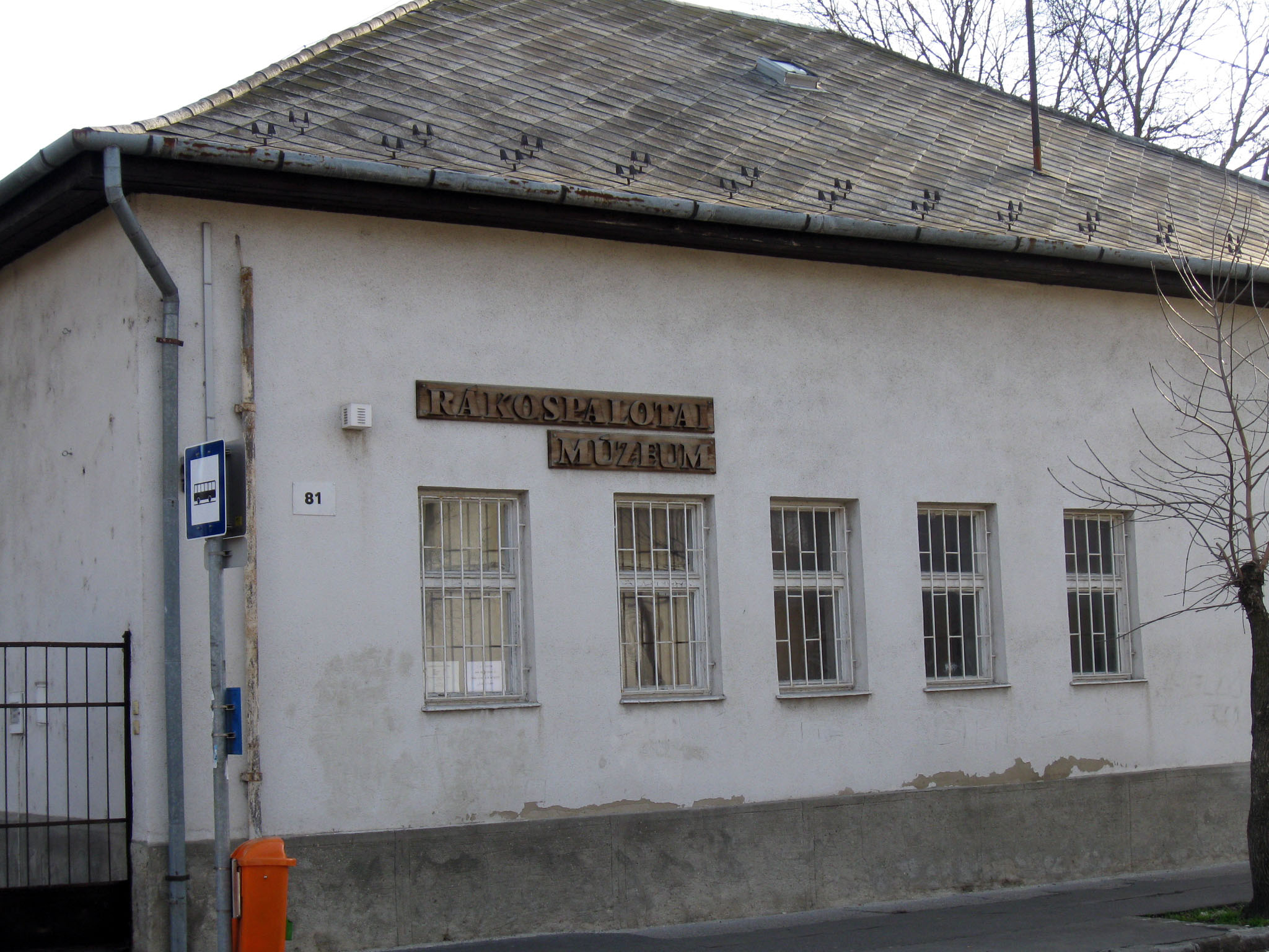 Rákospalota Local History Museum and Gallery - Budapest XV. district, Pestújhelyi str. 81.